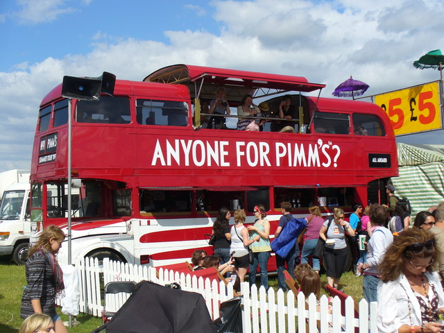 Converted catering Routemaster bus RML2292 (reg. CUV 292C) promoting Pimm's, pictured at the Guilfest 2009 festival in Stoke Park, Guildford.